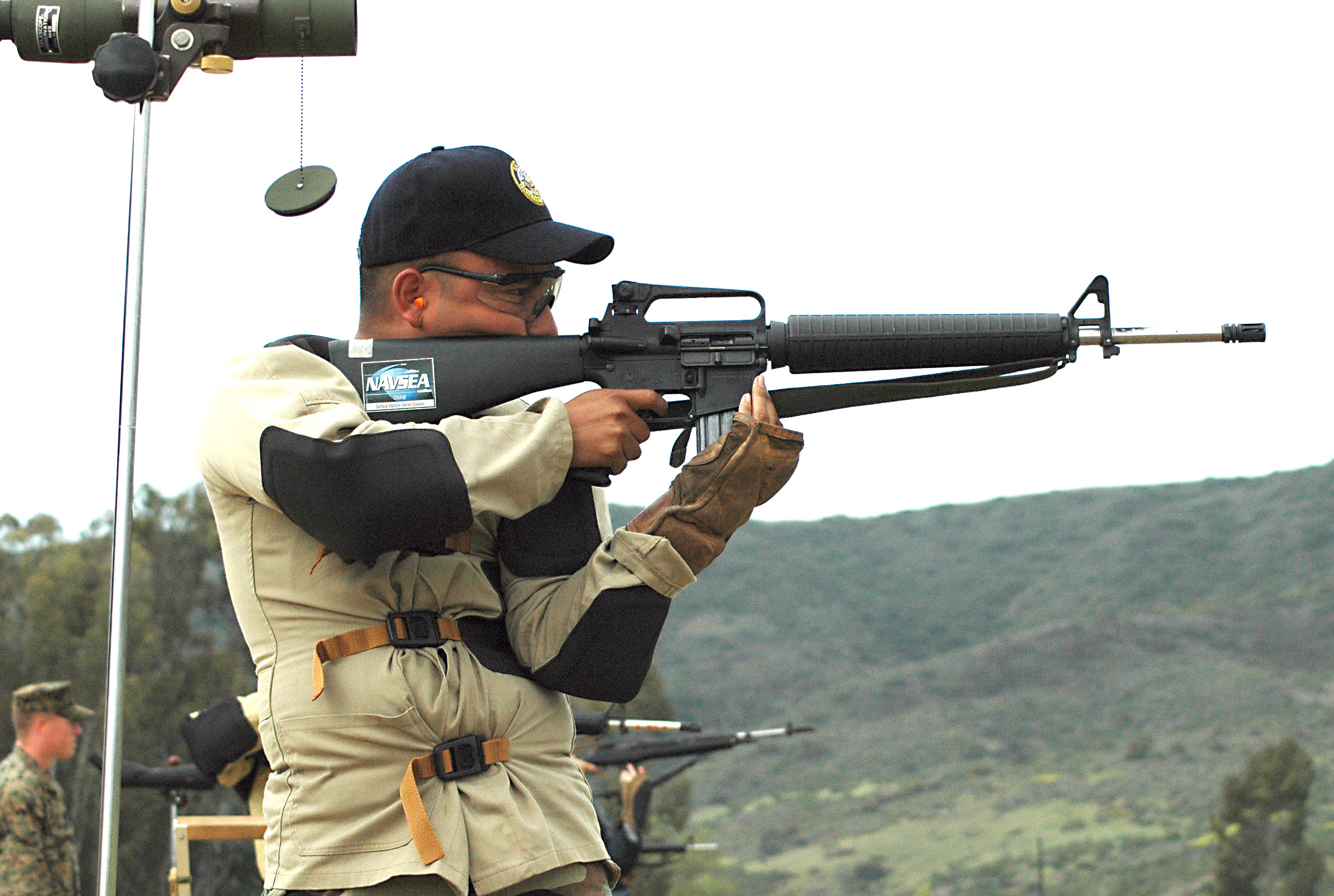 Camp Pendleton, Calif. (May 5, 2006) - Master-at-Arms 2nd Class Edgar Perez aligns his sites during the 500-yard off-hand individual standing stage of the 2006 Fleet Forces Command (Pacific) Rifle and Pistol Championships. Sailors, Marines, Coast Guardsmen and civilians competed in team and individual divisions during the annual marksmanship competition. U.S. Navy photo by Journalist 1st Class Brian Brannon (RELEASED)